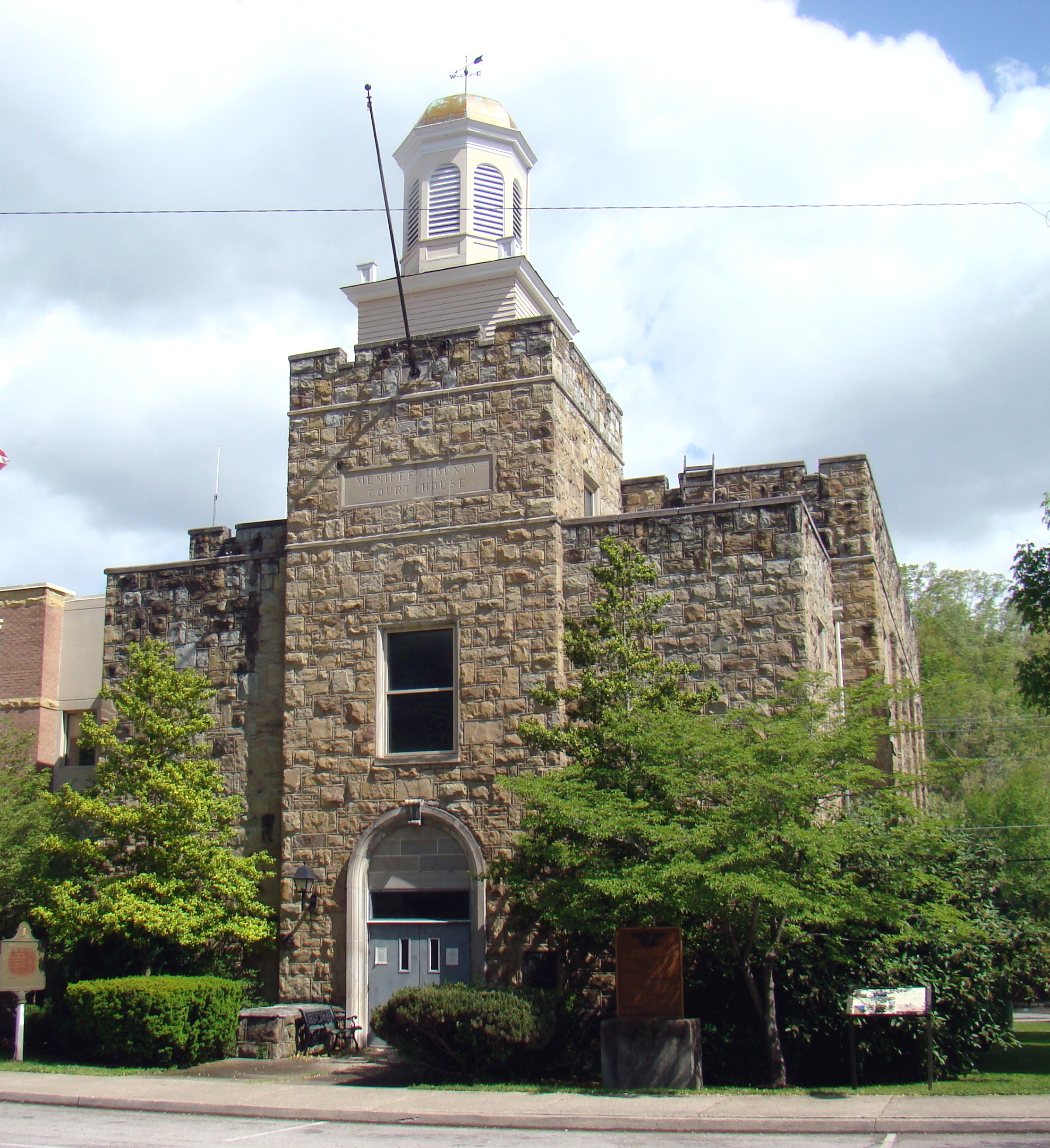 Menifee County Courthouse located in Frenchburg, Kentucky.